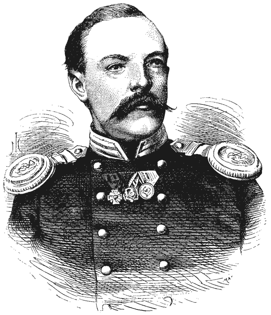 Dmitrovsky, Viktor Ivanovich.